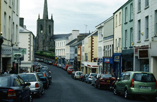 Enniskillen. Looking northwest along the main shopping street in Enniskillen.